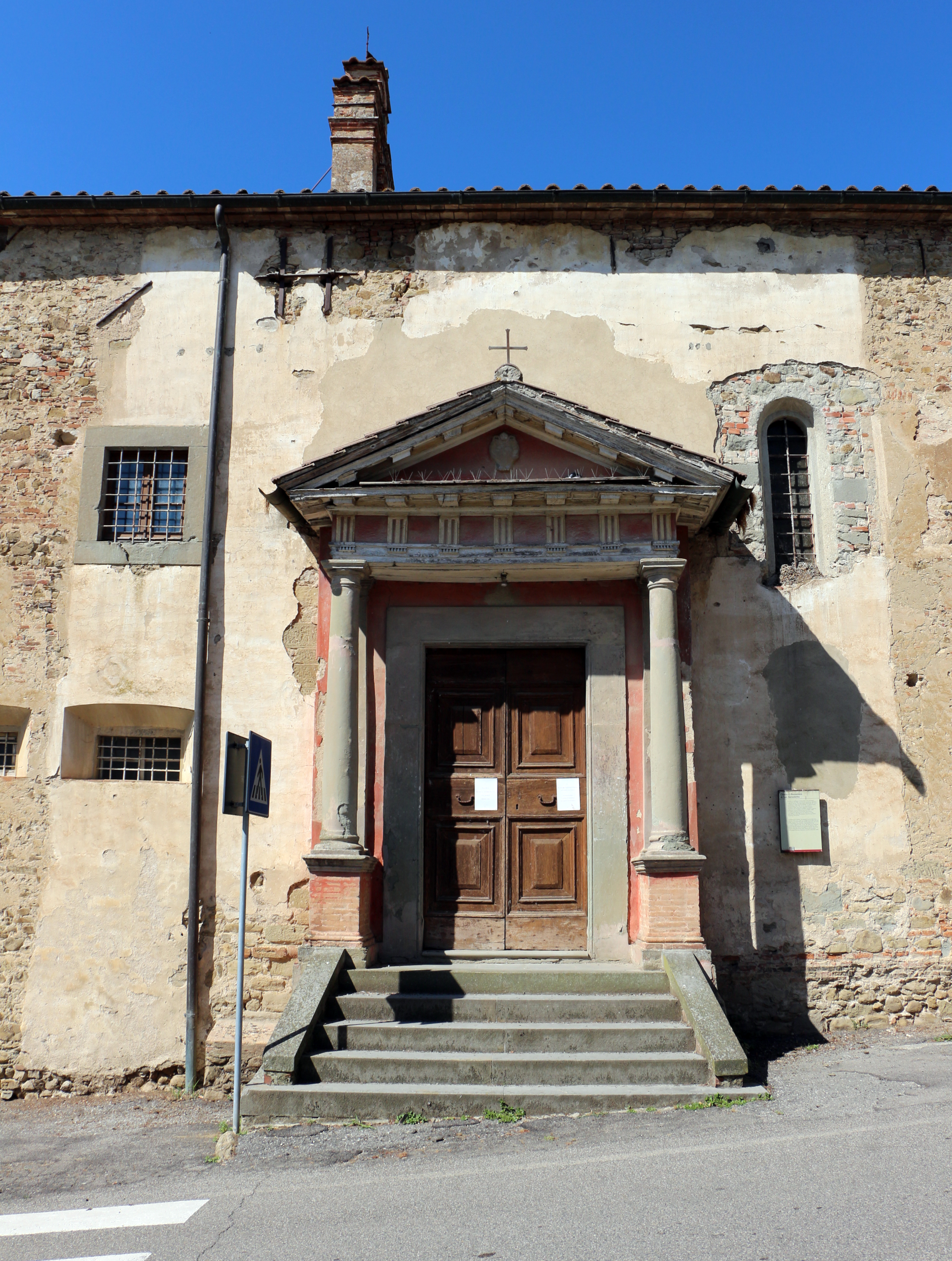 Monterchi